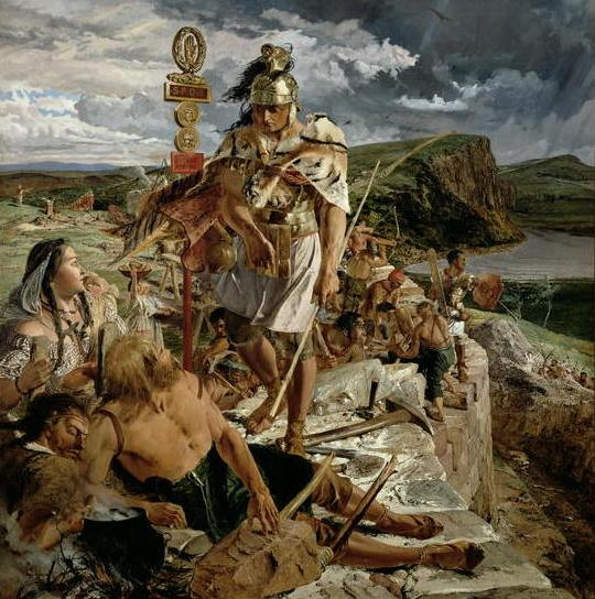 The painting shows a centurion supervising the building of Hadrian's Wall. The centurion has been given the face of John Clayton, who was responsible for saving parts of the Wall from loss. The painting is in the collection at Wallington Hall near Morpeth, England.